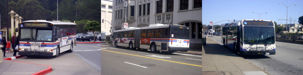 A collage of buses operated by SamTrans: a Gillig Phantom on the left, a New Flyer 60-footer on the center, and a Gillig BRT on the right.